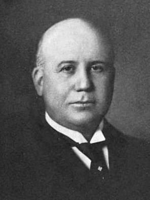 Frank K. Mott, Mayor of Oakland, California, 1905 to 1915.